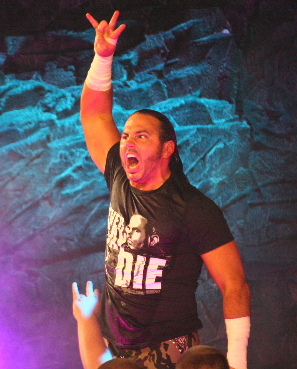 Matt Hardy making his entrance at a TNA show in October 2014